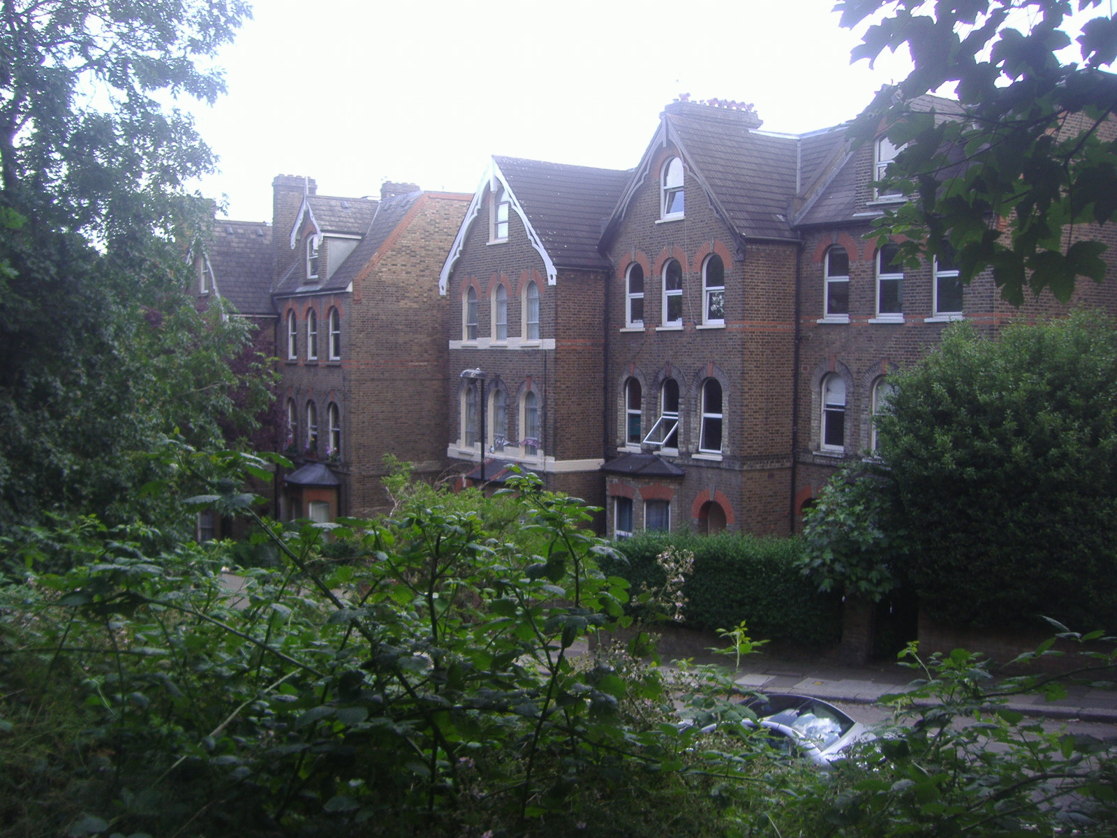 Houses on Blythwood Road, near Crouch Hill (or Crouch End) London